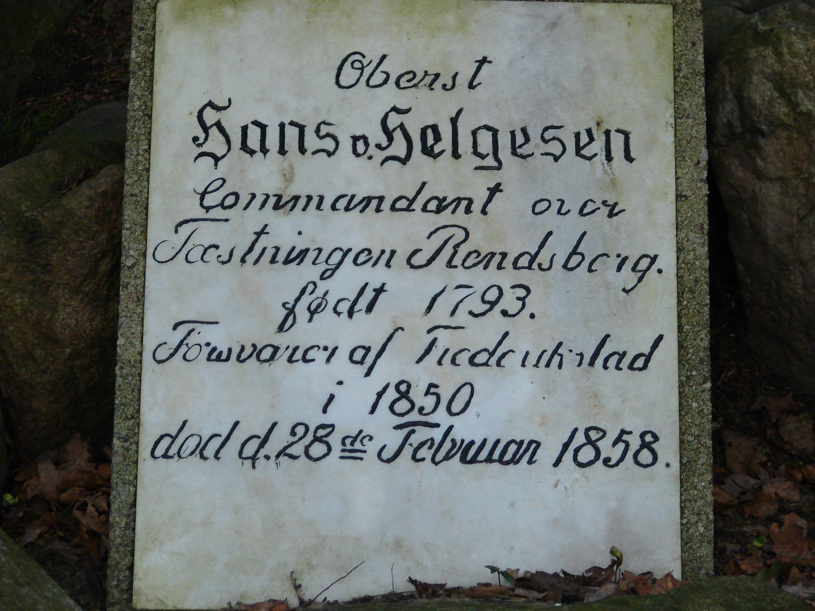 Hans Helgesens grave in Flensborg.